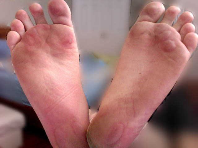 Friction Blisters on Human foot due to running barefoot.